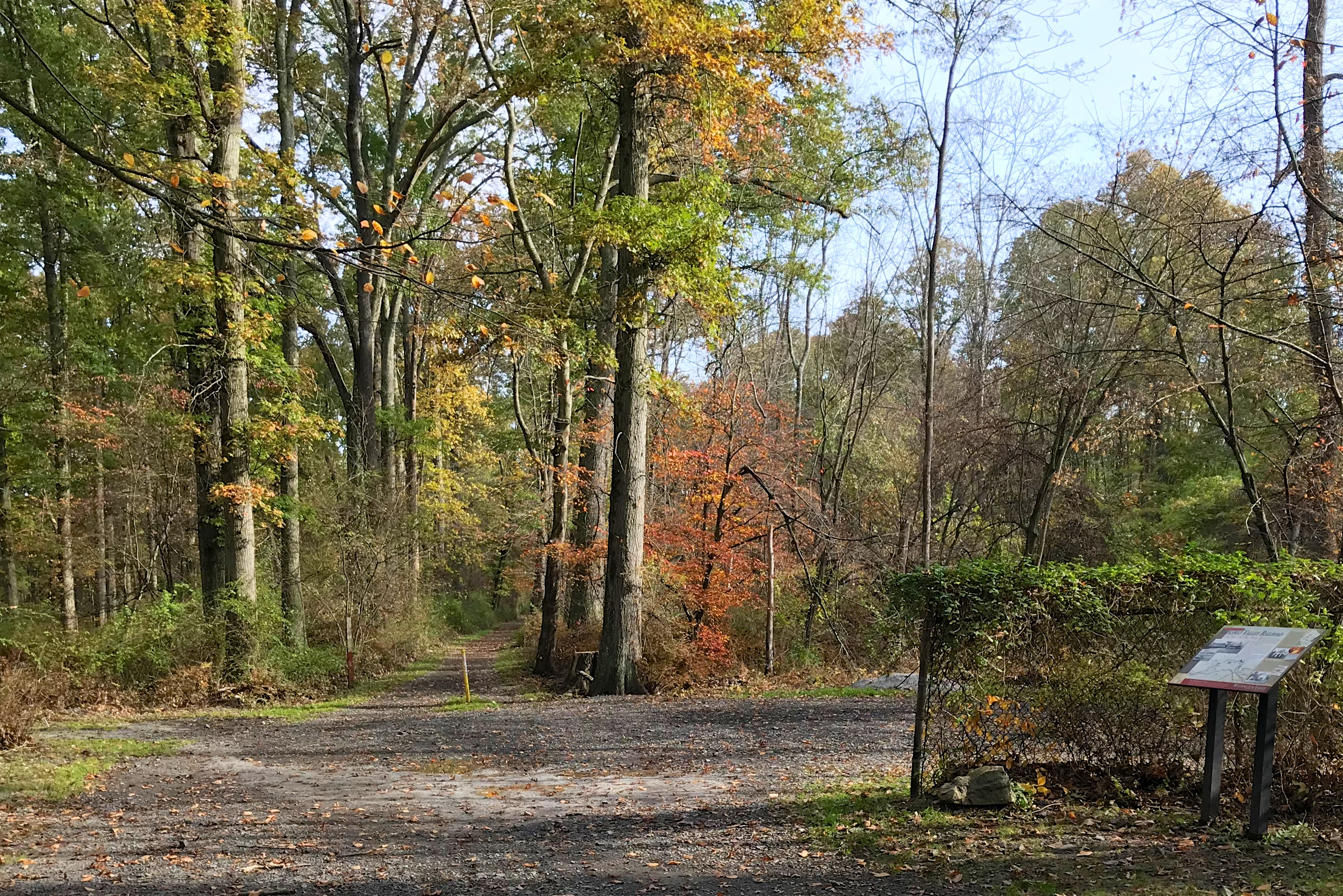 Site of the Washington Valley Station of the former Rockaway Valley Railroad, now on the Patriots' Path. Contributing structure #69 of the Washington Valley Historic District in Washington Valley, New Jersey.